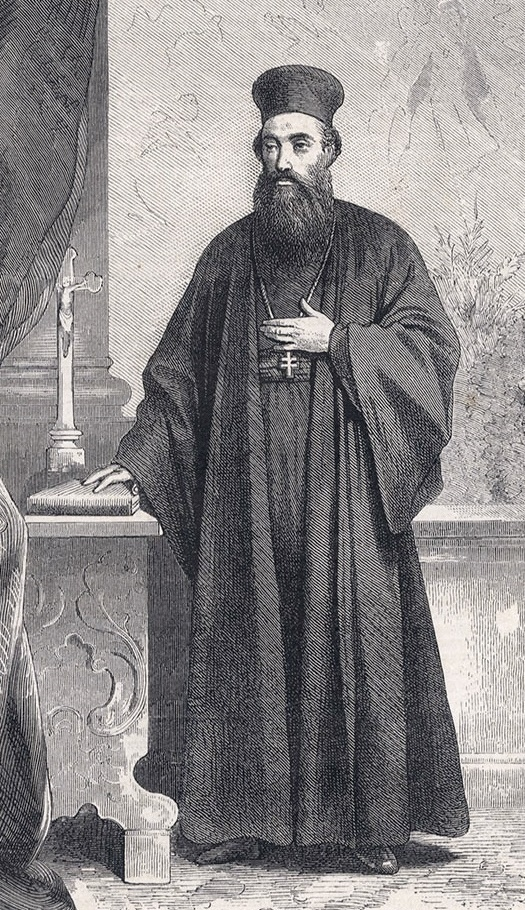 Gregor Ata melkitisch-katholischer Erzbischof von Homs (1815-1899), Konzilsvater 1. Vaticanum